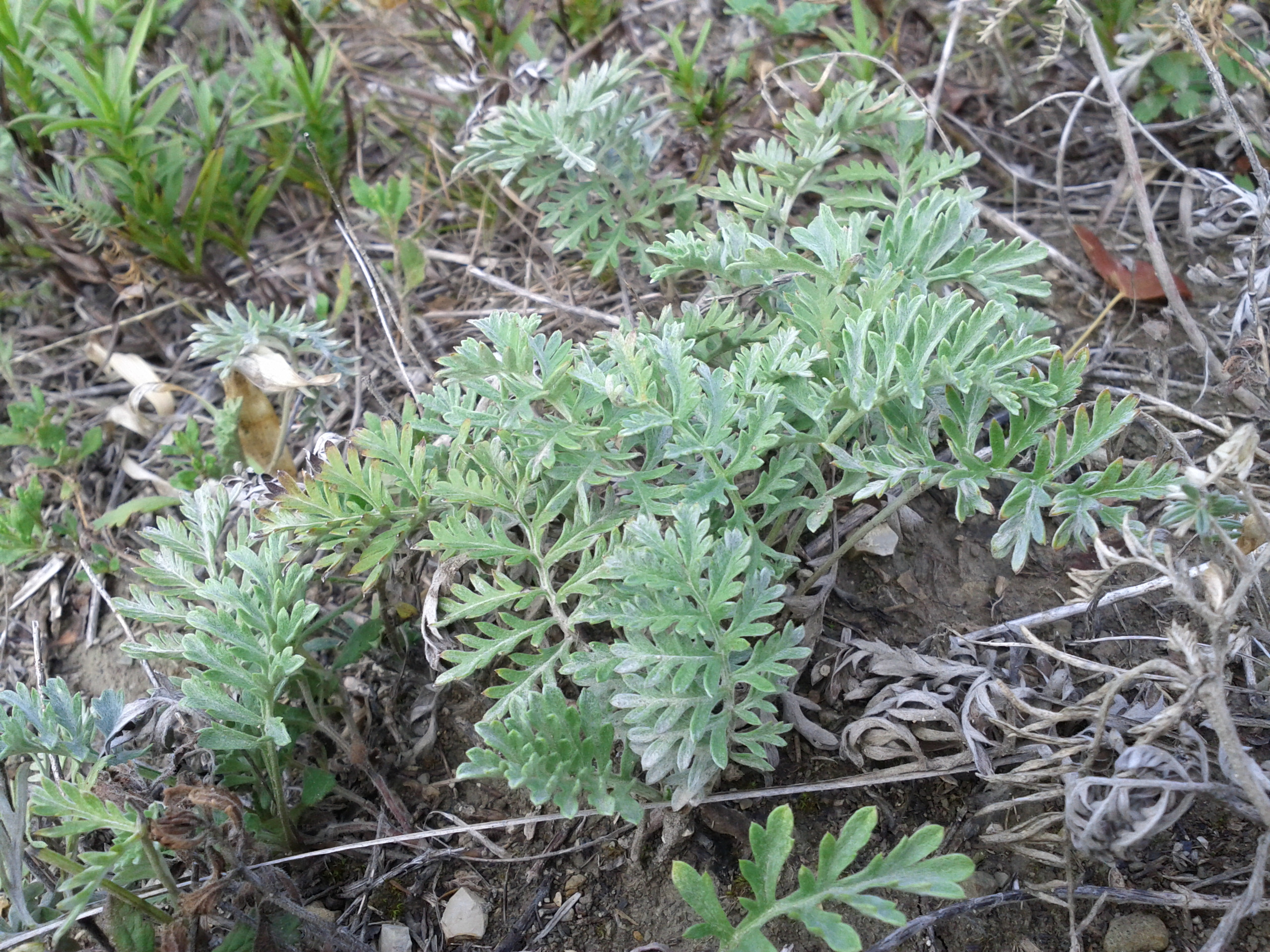 Sterile rosettes Taxonym: Artemisia pancicii ss Fischer et al. EfÖLS 2008 ISBN 978-3-85474-187-9 Location: west slope of Bisamberg, district Korneuburg, Lower Austria - ca. 300 m a.s.l. Habitat: rock steppe